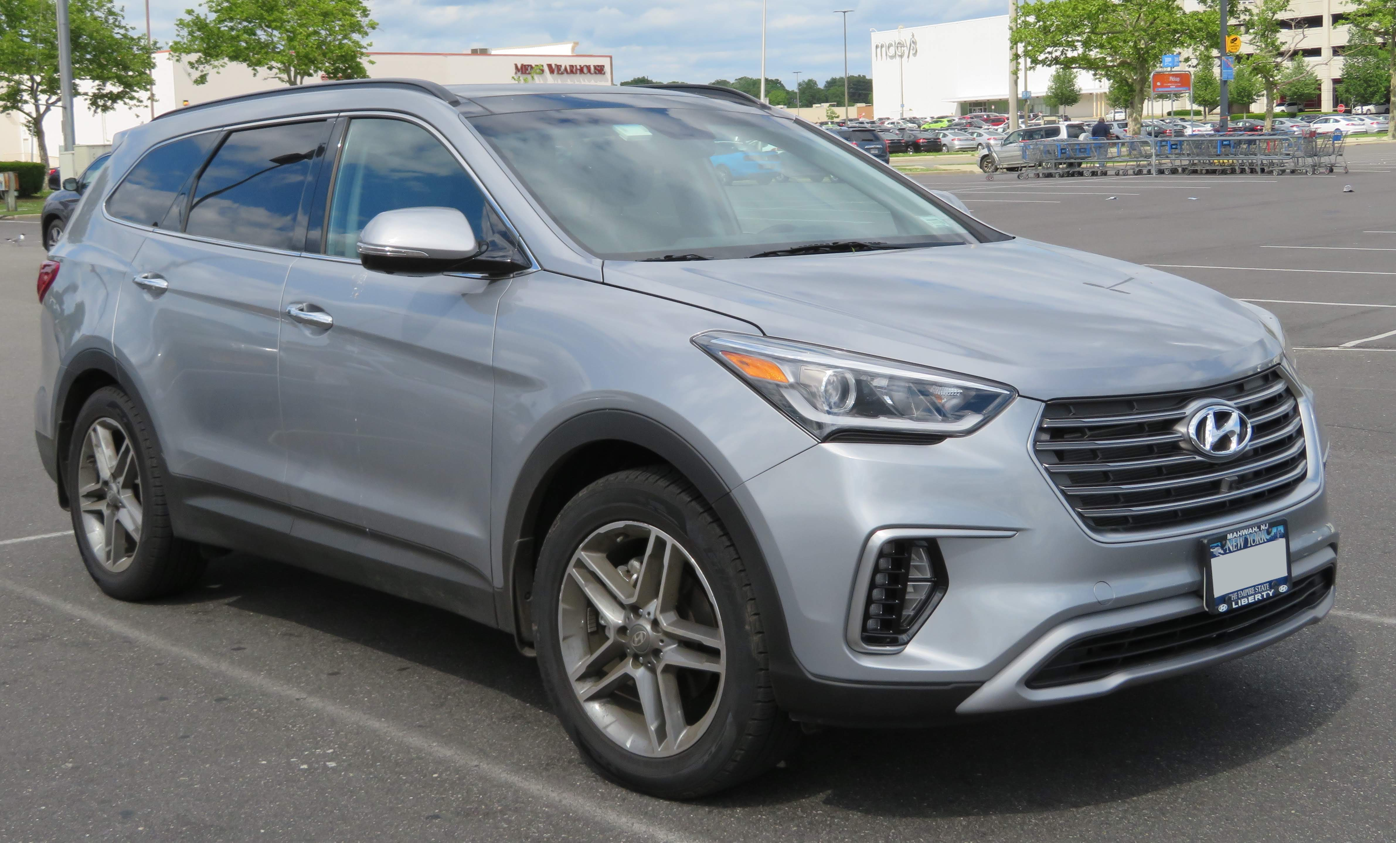 Photographed in Long Island, New York